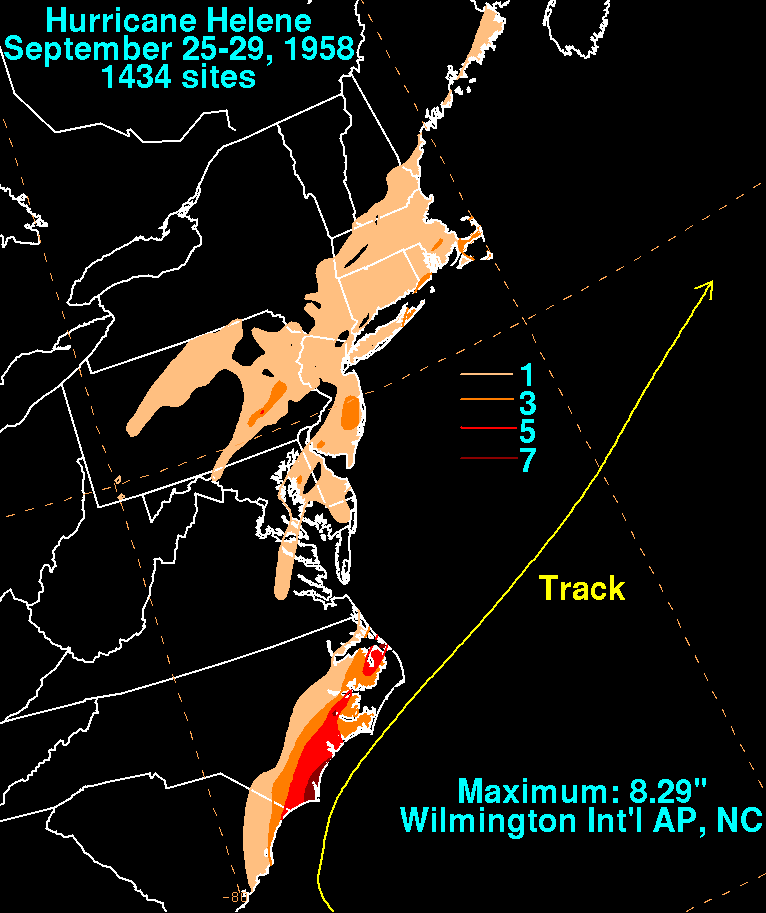 Rainfall produced by Hurricane Helene during September 1958.